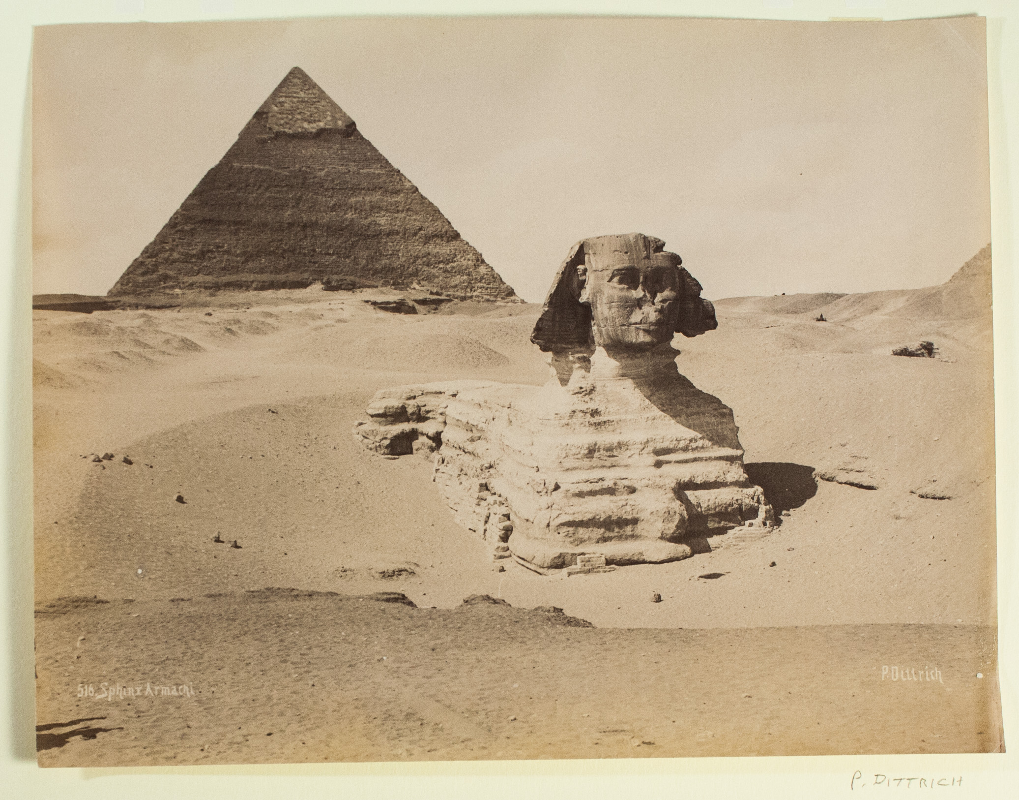 "Sphinx Armachi" albumen print by German photographer P. Dittrich, 1890s